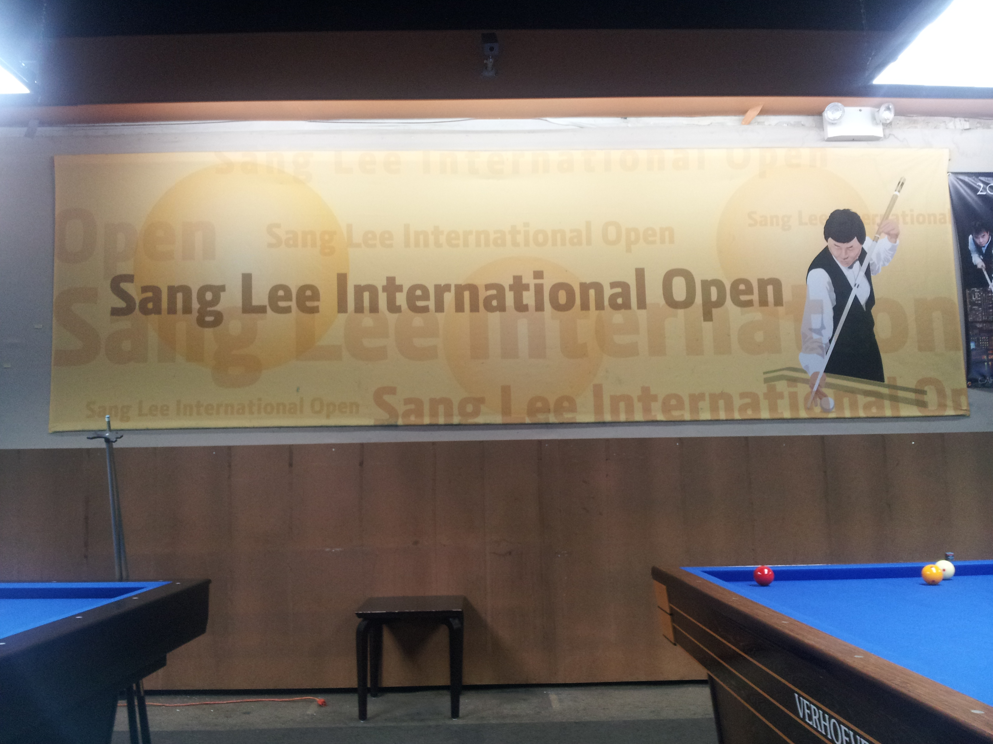 Verhoeven Open 2016. 3-Cushion Tournament at the Carom Café in New York City.